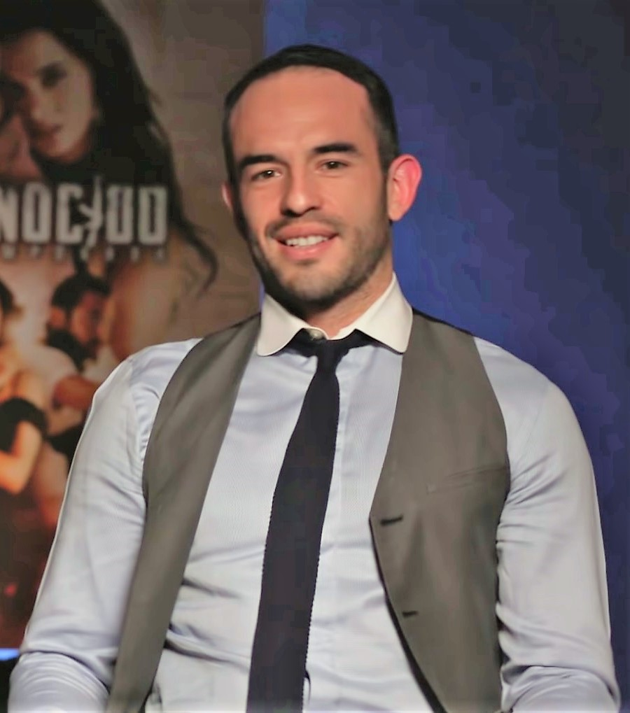 Mexican actor, director, writer, and producer Guillermo Iván interviewed by Dulce Osuna about El Desconocido